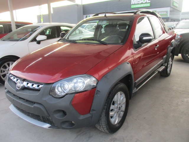 RAM 700 pick-up Adventure in Chile, rebadged Fiat Strada